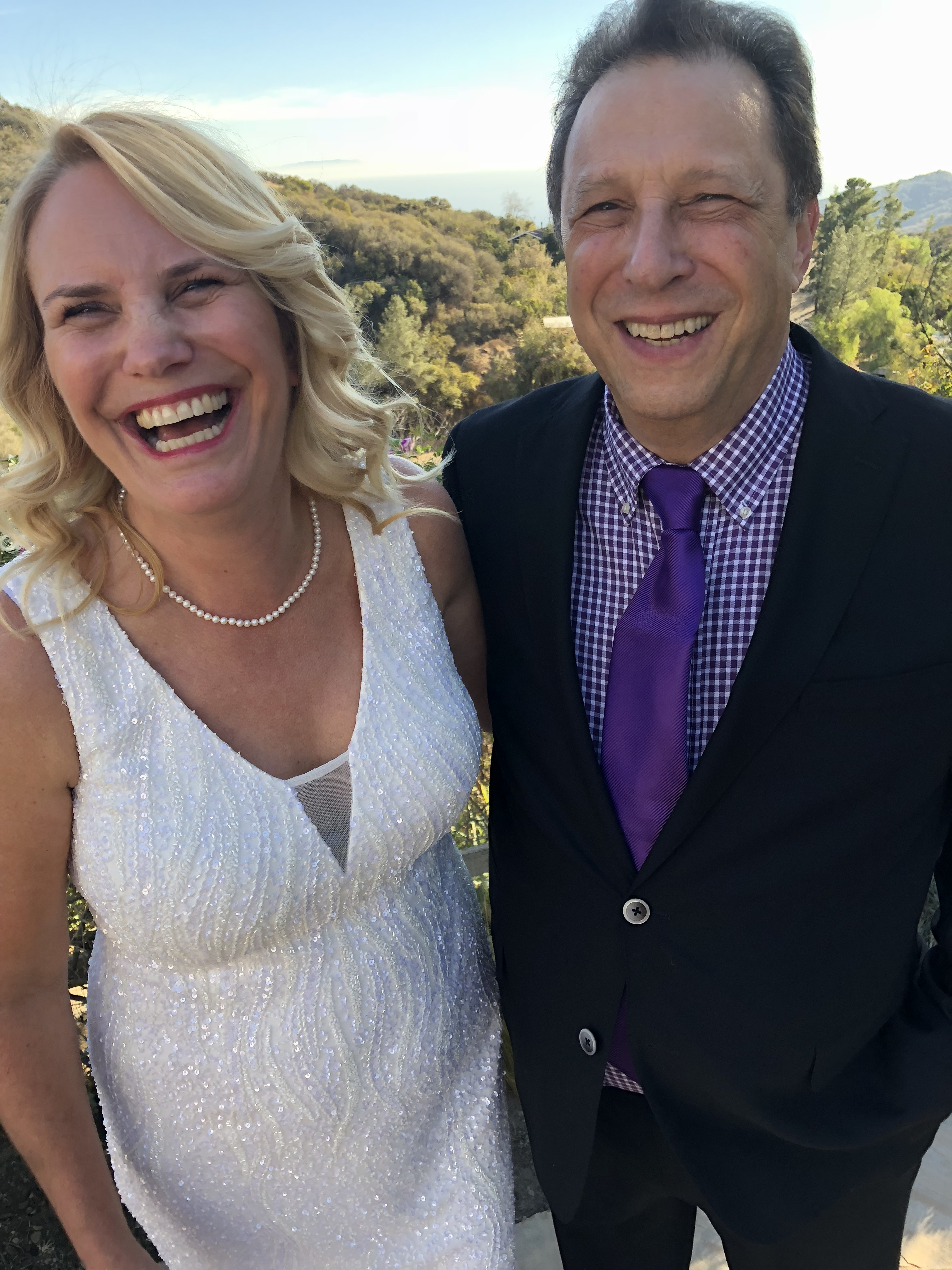 Wedding photograph of Charles Dennis and Ulrika Vingsbo-Dennis taken on December 28, 2017 in Malibu, California.